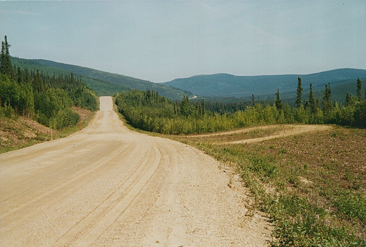 Steese Higway en allant en direction de Circle